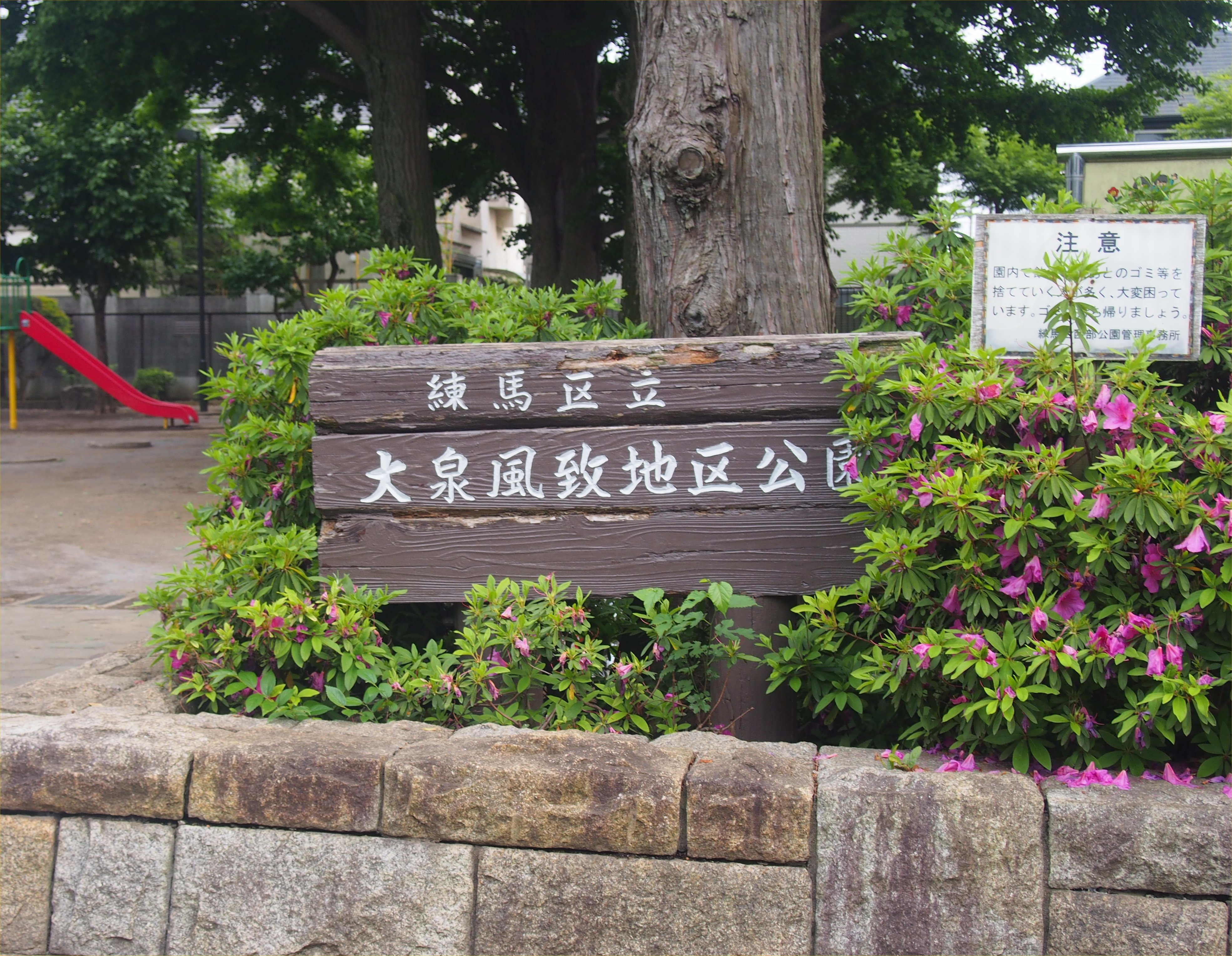 A photo of "Oizumi Fuuchichiku(scenic area) Park",Oizumicho,Nerima-ku,Tokyo,Japan.